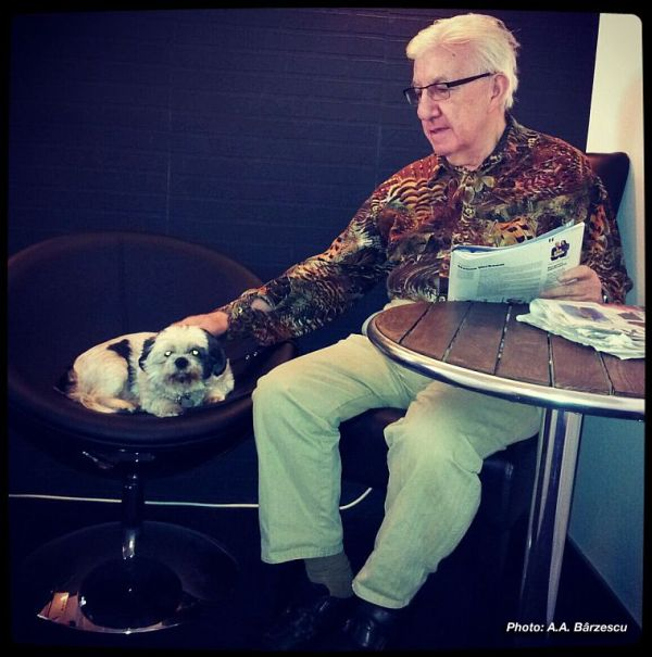 Photo of Miguel Angel Cardenas and dis dog, Musa 2012